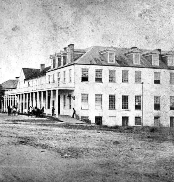 Image of Brown's Inn